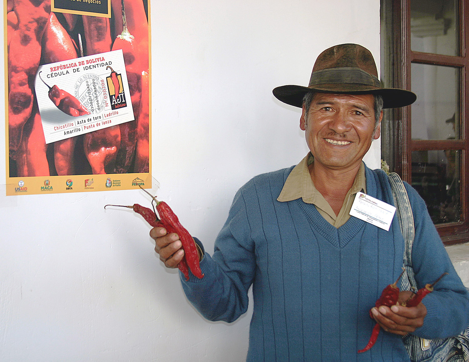 Local holding chilis in Padilla, Bolivia